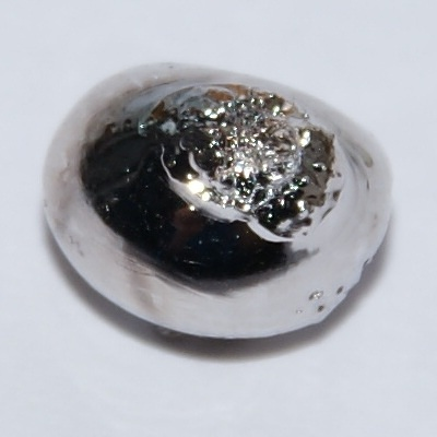 The platinum group metal rhodium is the rarest and most valuable stable metal on earth. It is needed in many chemical applications as a catalyst, like for example in the industrial production of acetic acid. Therefore rhodium is very expensive and its price fluctuates strongly. In catalytic converters, it reduces the amount of toxic material that arises from the combustion. Rhodium is furthermore used for plating high-grade mirrors and jewellery. Rhodium is very hard, ductile and noble.